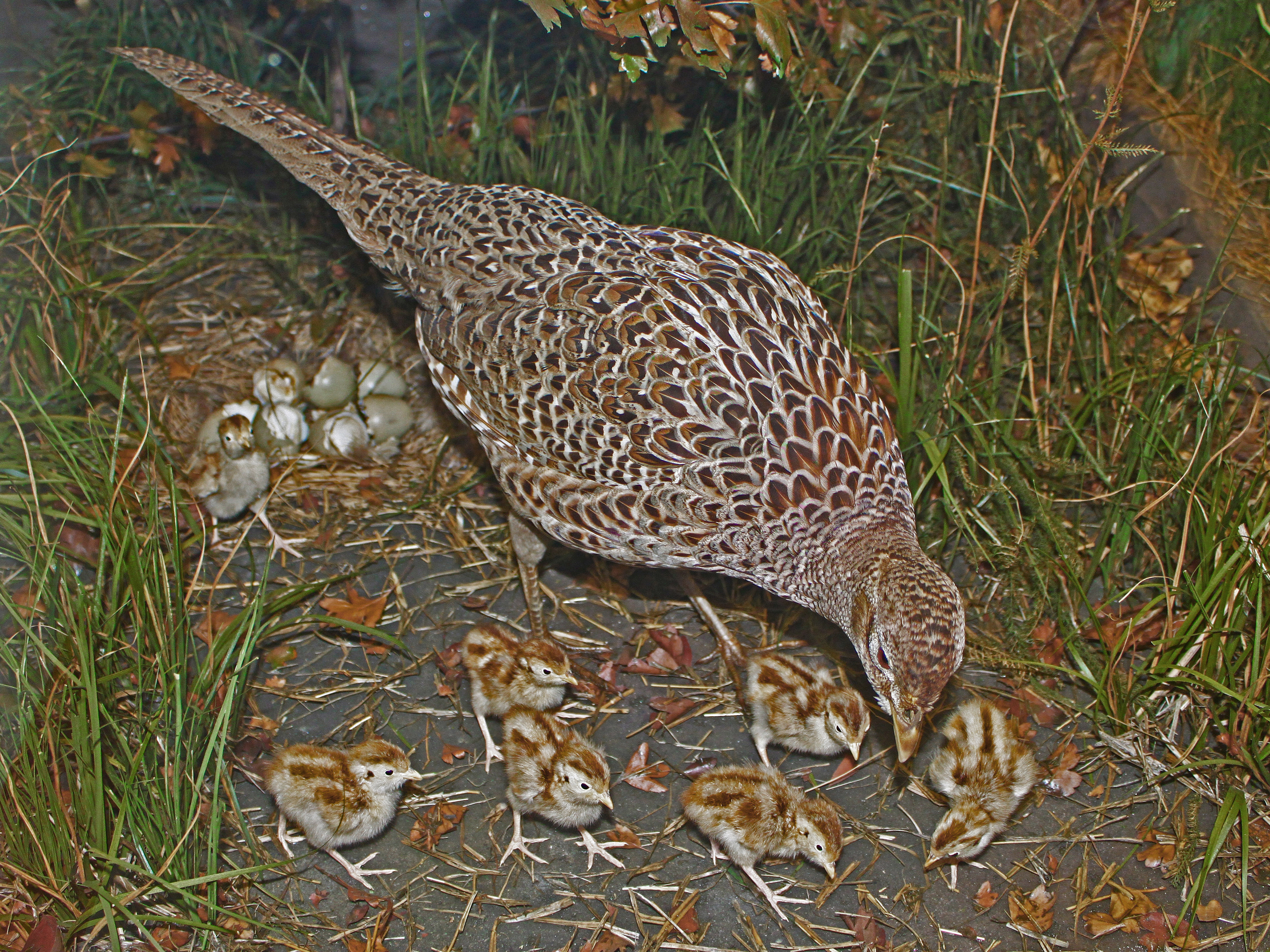 Phasianus colchicus, Phasianidae, Common Pheasant; Staatliches Museum für Naturkunde Karlsruhe, Germany.